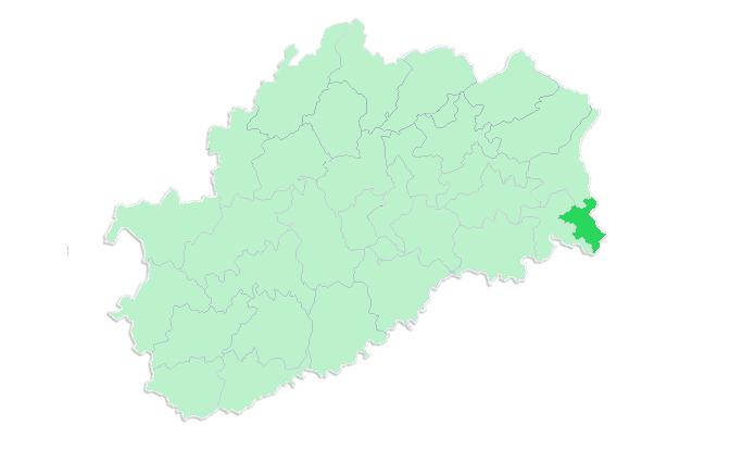 Canton of Héricourt Est